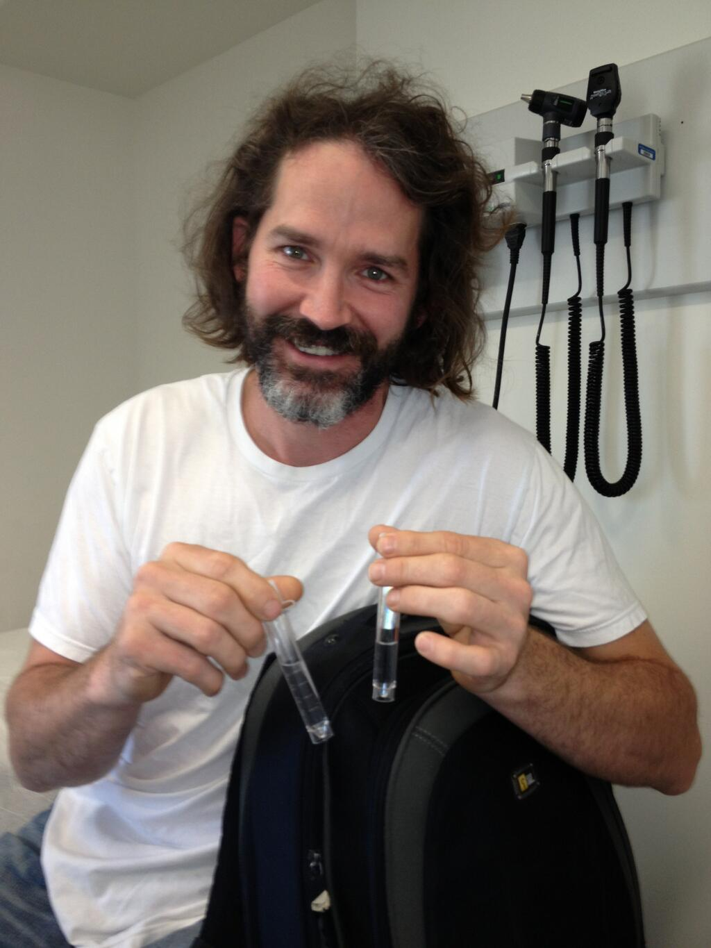 NHL Alum Brad Turner shows CSF after his lumbar puncture for research at Baycrest.